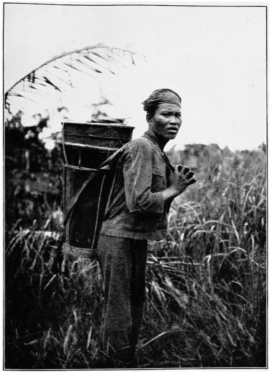 Dusun carrying Bongun